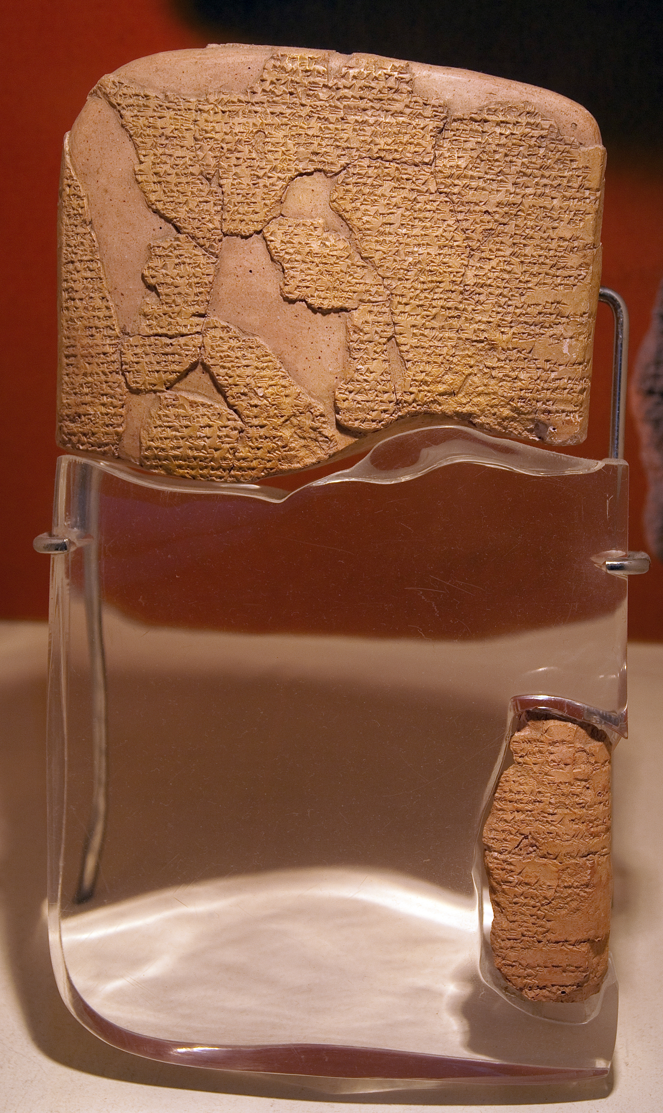 Smaller tablet of Treaty of Kadesh, discovered at Boğazköy, Turkey. Museum of the Ancient Orient, one of the Istanbul Archaeology Museums.